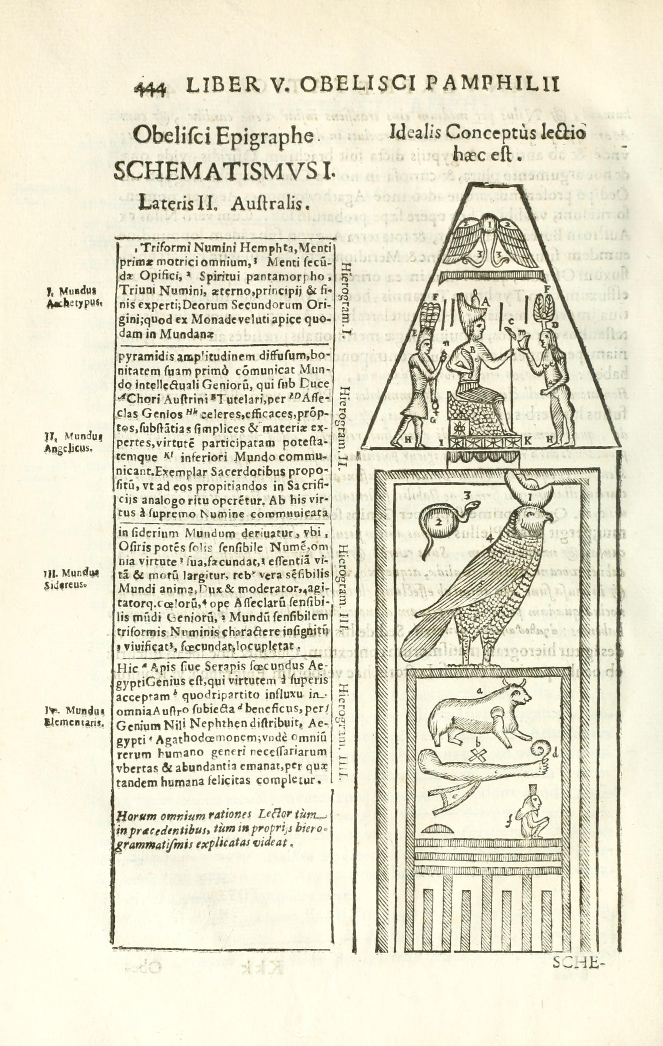 Page 444 of Obeliscus Pamphilius (1650) by Athanasius Kircher. The illustration on the right depicts the upper section of the southern face of the Agonale Obelisk, also known as the Pamphilian Obelisk, in Rome. The left column is Kircher's fanciful translation, in Latin, of each figure. Kircher was unable to distinguish between illustrations, as on the pyramidion, and hieroglyphic text, and he thus attempted to translate both. The headings for the two columns on the page were reversed by a printing error. (Source: Daniel Stolzenberg, Egyptian Oedipus, pp. 200–203.)